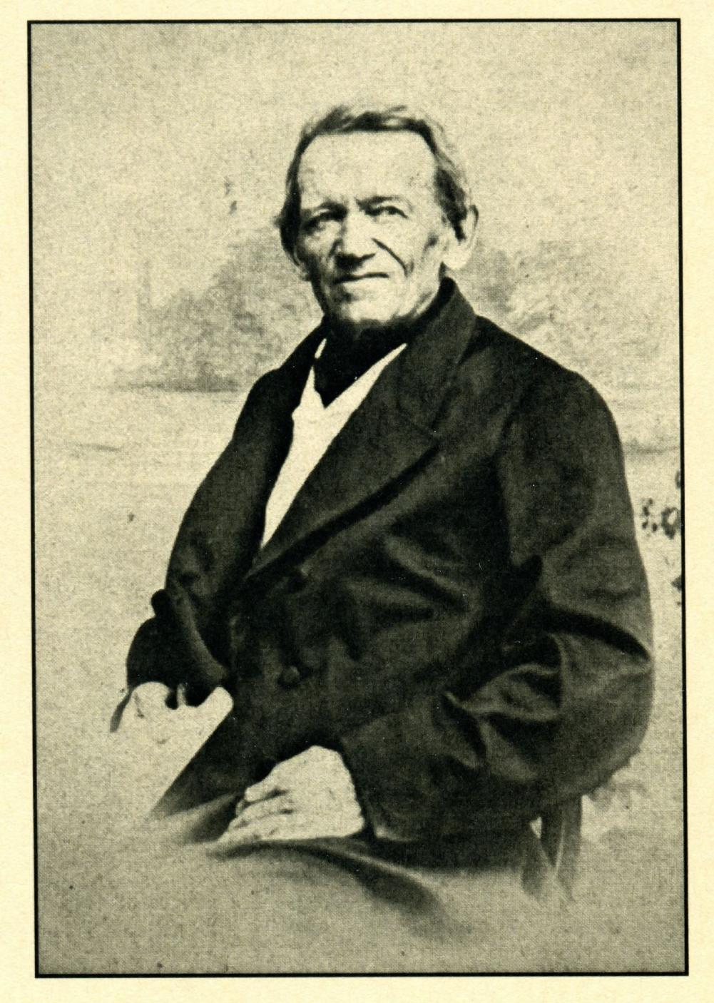 Fallou, Friedrich Albert. German. Founder of Modern Soil Science. Photo taken before his death in 1877